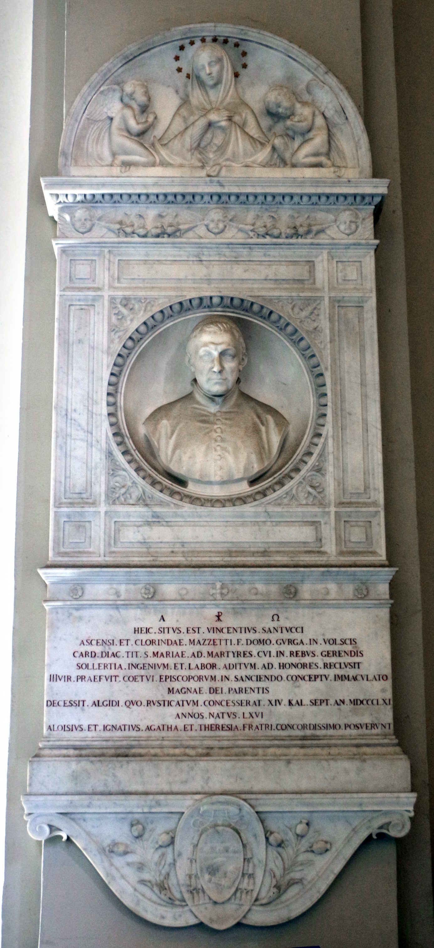 San Giovanni in Laterano (Rome) - Interior